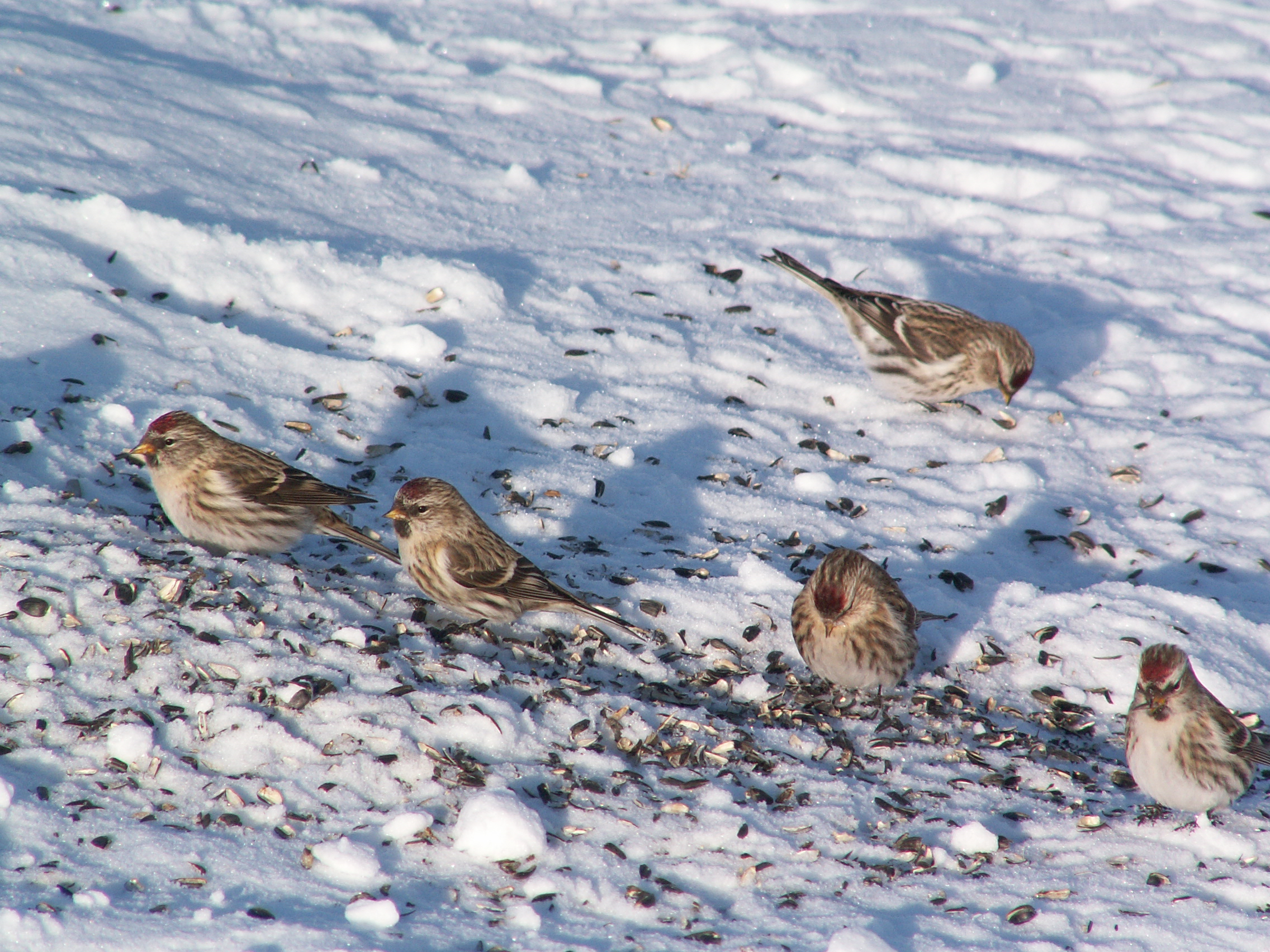 Common Redpoll (Carduelis flammea) feeding on sunflower seeds, Cap Tourmente National Wildlife Area, Quebec, Canada.